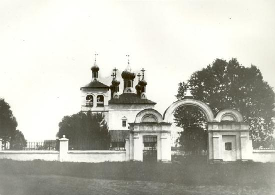 Savvatieva Pustyn, 1890s-1910s